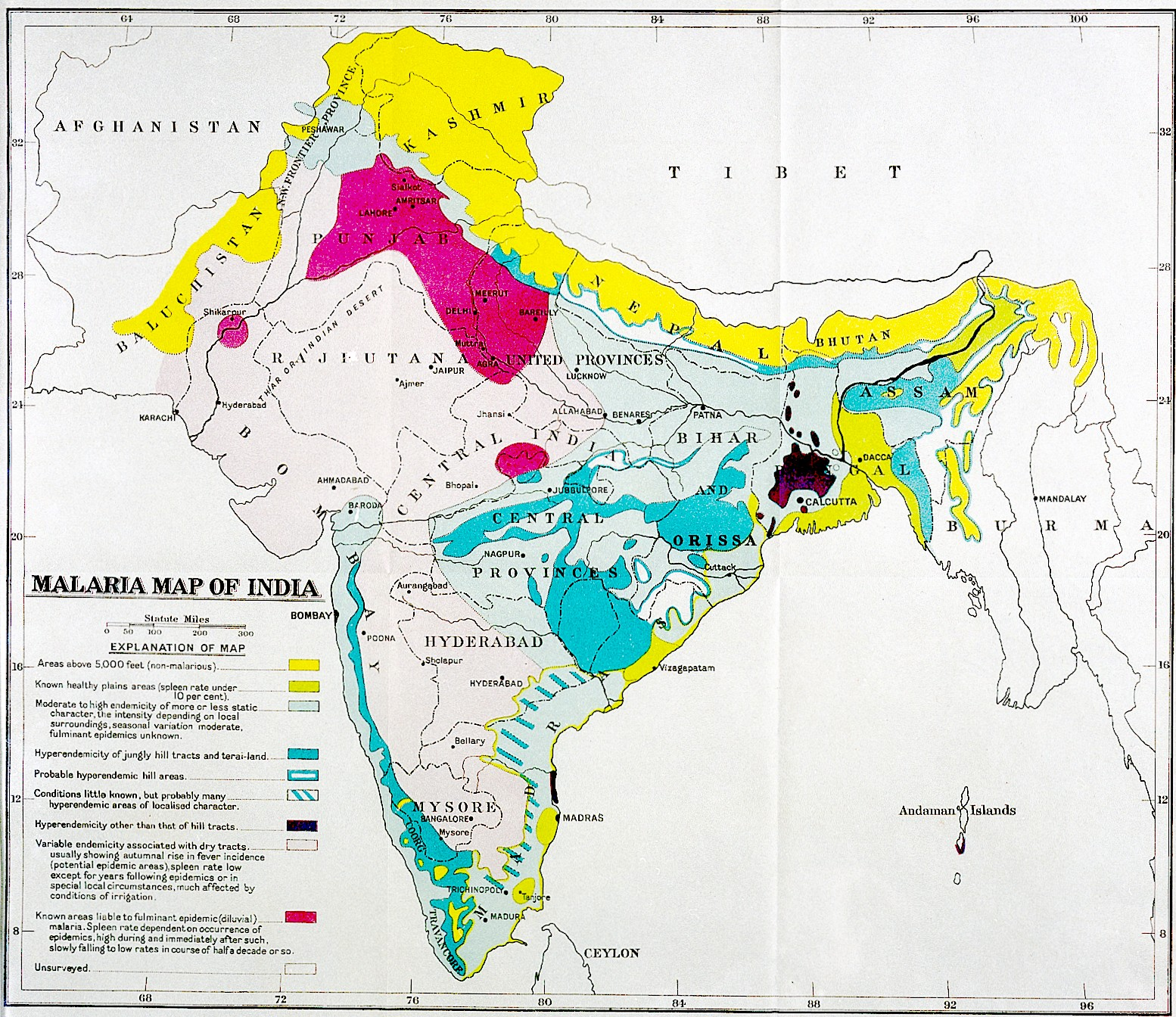 Malaria map of India General Collections Keywords: Malaria